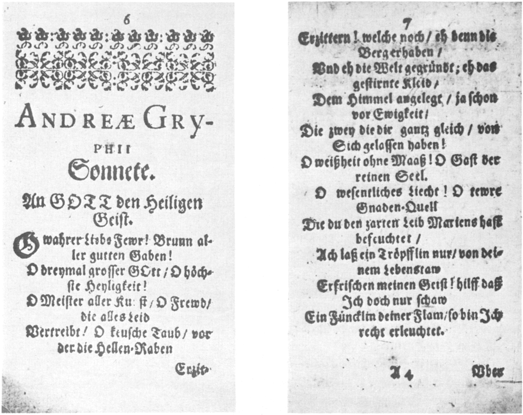 First print of Andreas Gryphius' sonnet "An Gott den Heiligen Geist", 1637